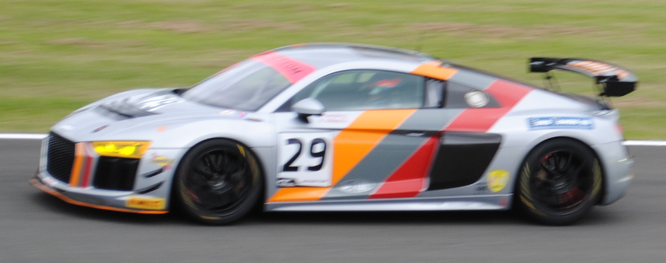 The Audi R8 LMS GT4 won the first race at Snetterton from first on the grid and repeated that at Donington.